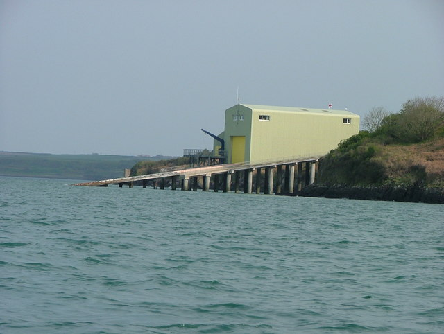 RNLI Lifeboat house at Angle The present lifeboat here (may 2007) is an all weather "Tyne" class boat , "The Lady Rank"